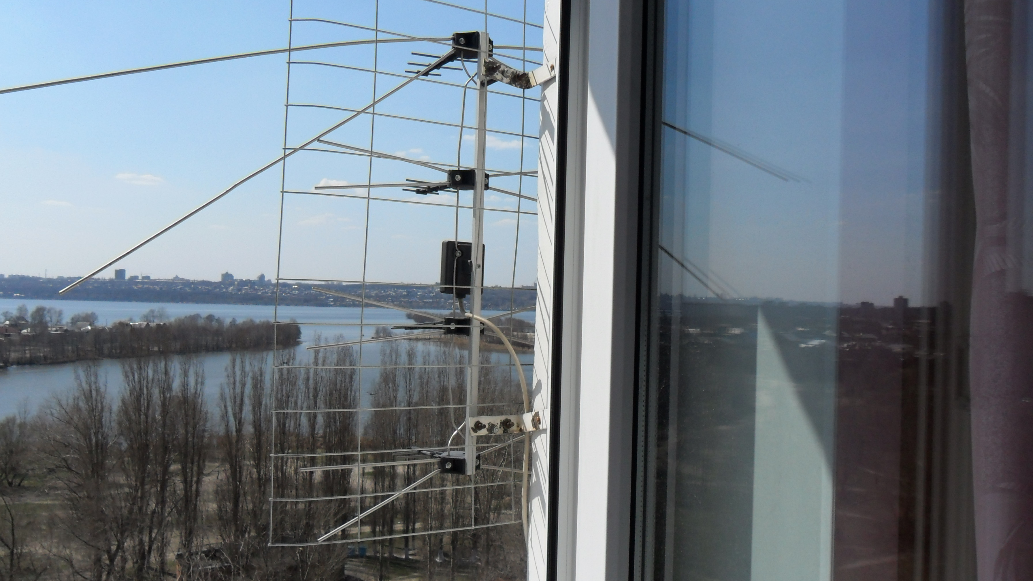 TV antenna in Voronezh, Russia